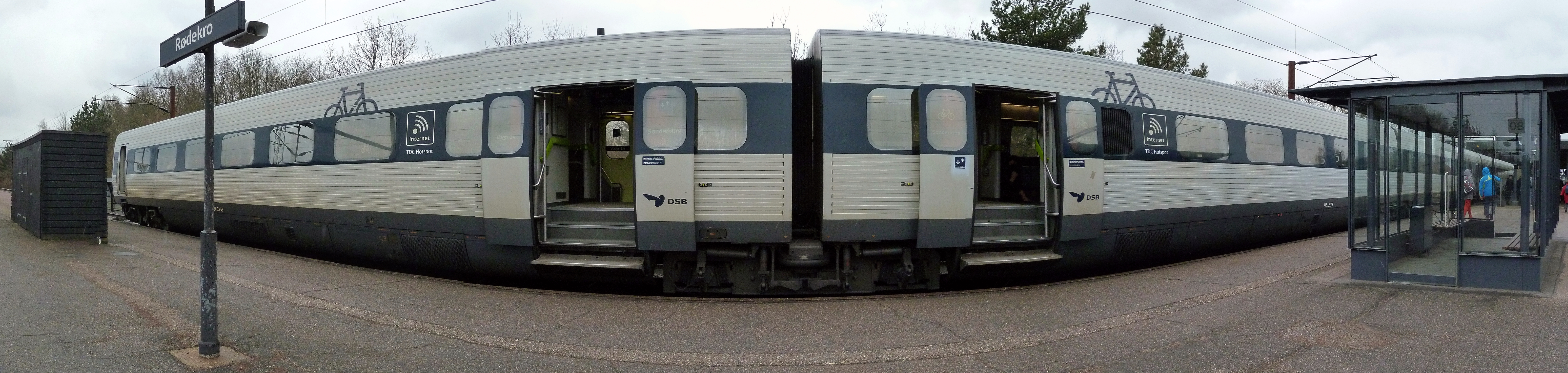 From "Things I saw on a trip to Jutland" For the train-geek